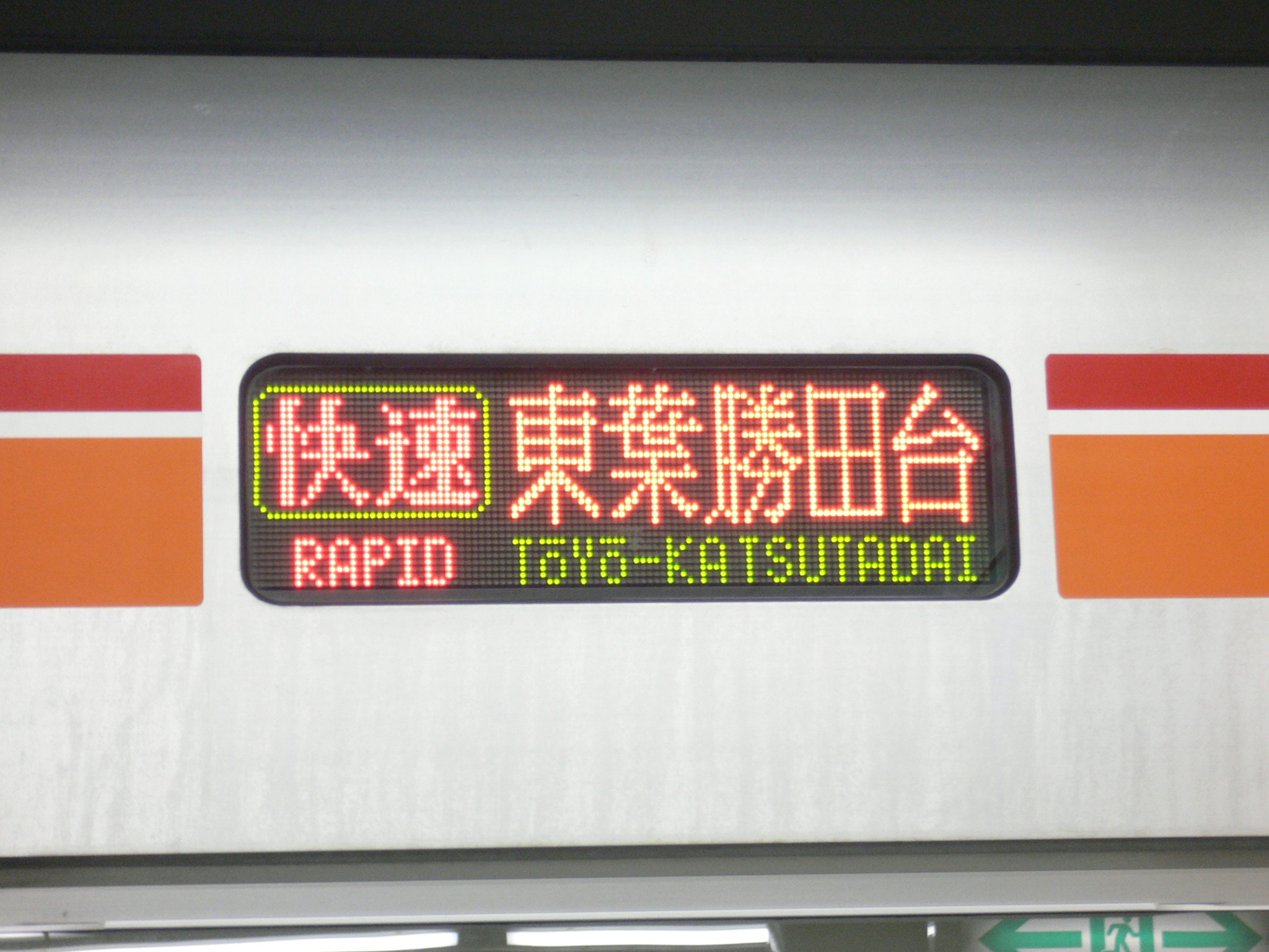 Toyō Rapid Railway Train type 2000 (門前仲町駅), Kotō W, Tokyō M.